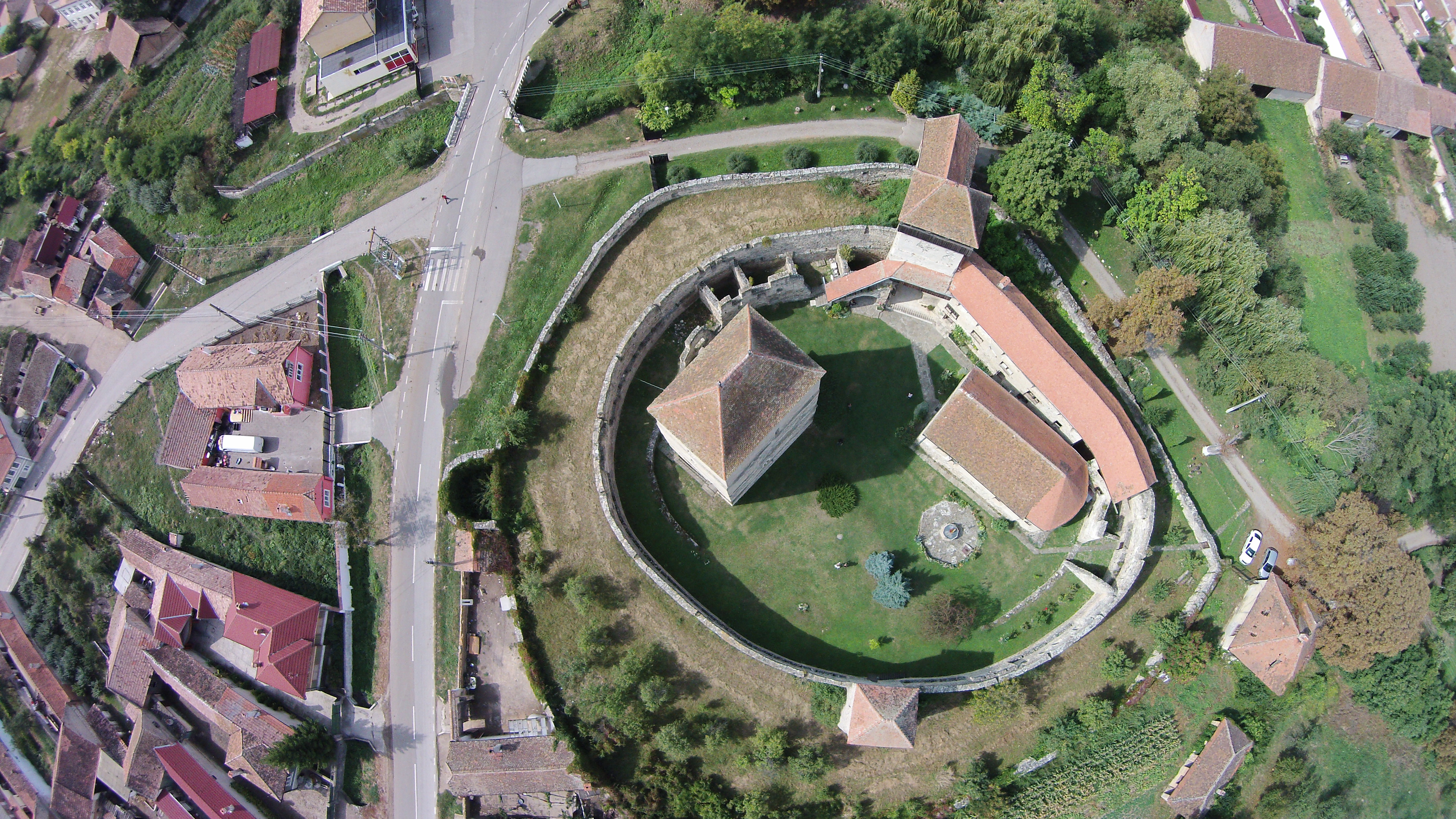 Câlnic CitadelRomână: Cetatea din Câlnic